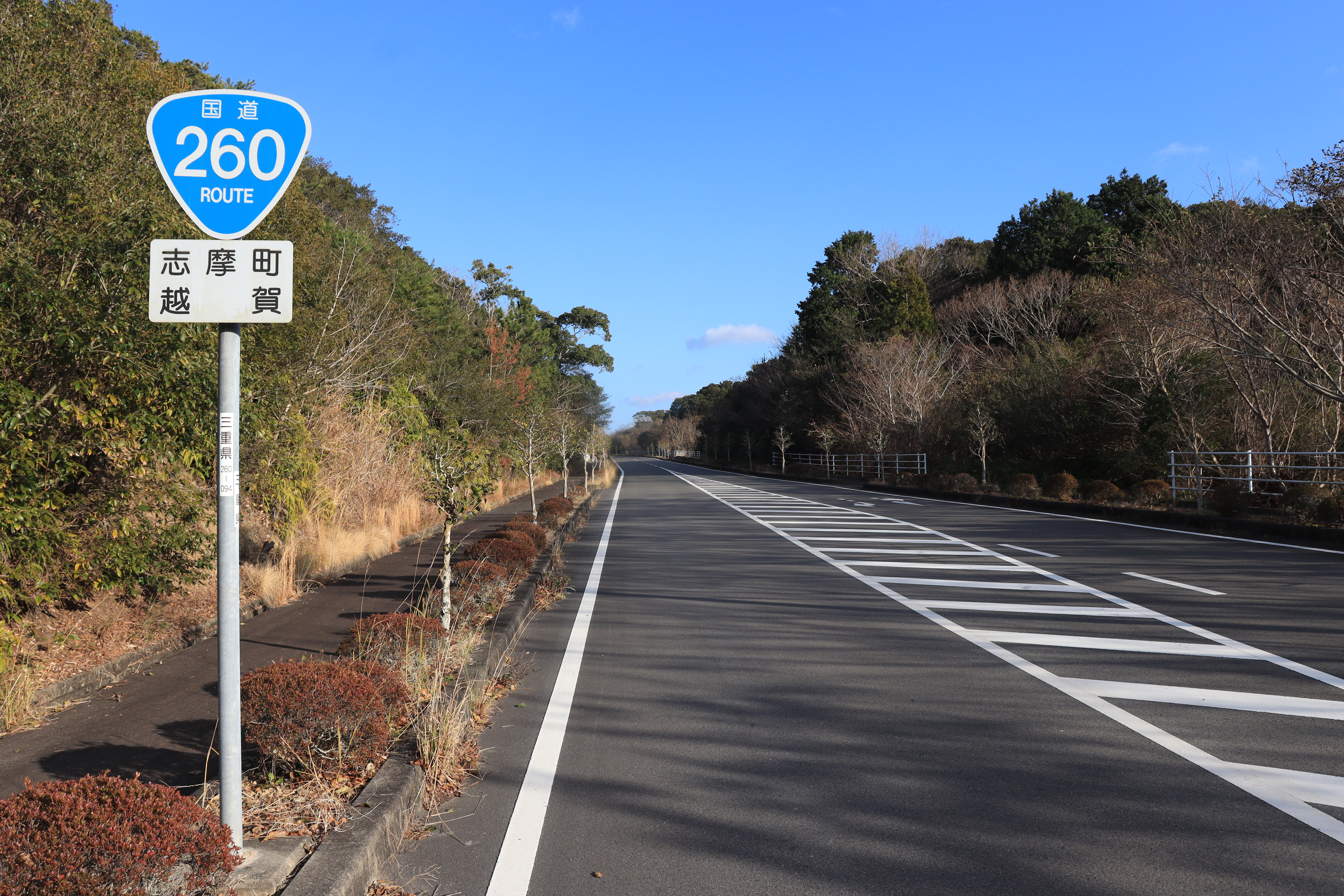 Route 260 in Koshika, Shimacho, Shima City, Mie Prefecture, Japan.